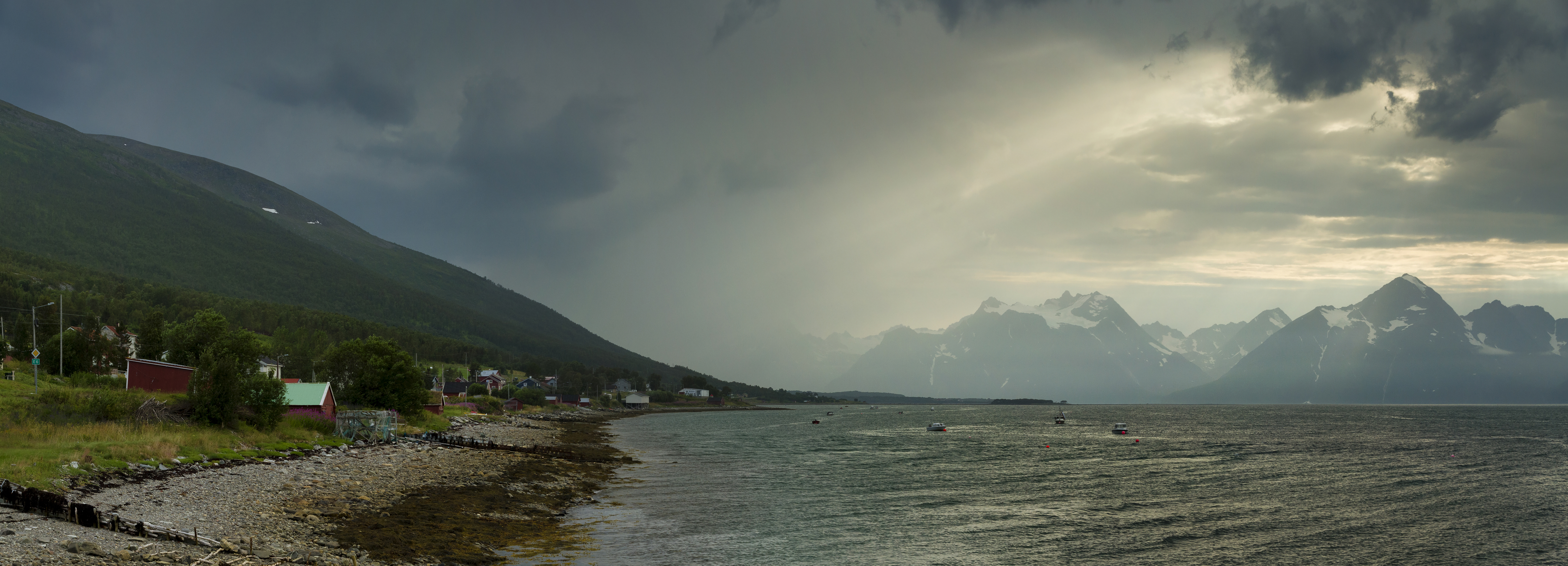 An evening thunderstorm is approaching fast from the mountains to Rotsundet inlet in Nordreisa, Troms, Norway in 2014 August. The picture has been taken from the Rotsund ferry terminal. The mountains in the background are located on the Lyngen peninsula, in Lyngen municipality and belong to Lyngsalpan mountain range.